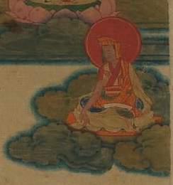 Drapa Ngonshe (b.1012 - d.1090) - Tibetan Buddhist monk